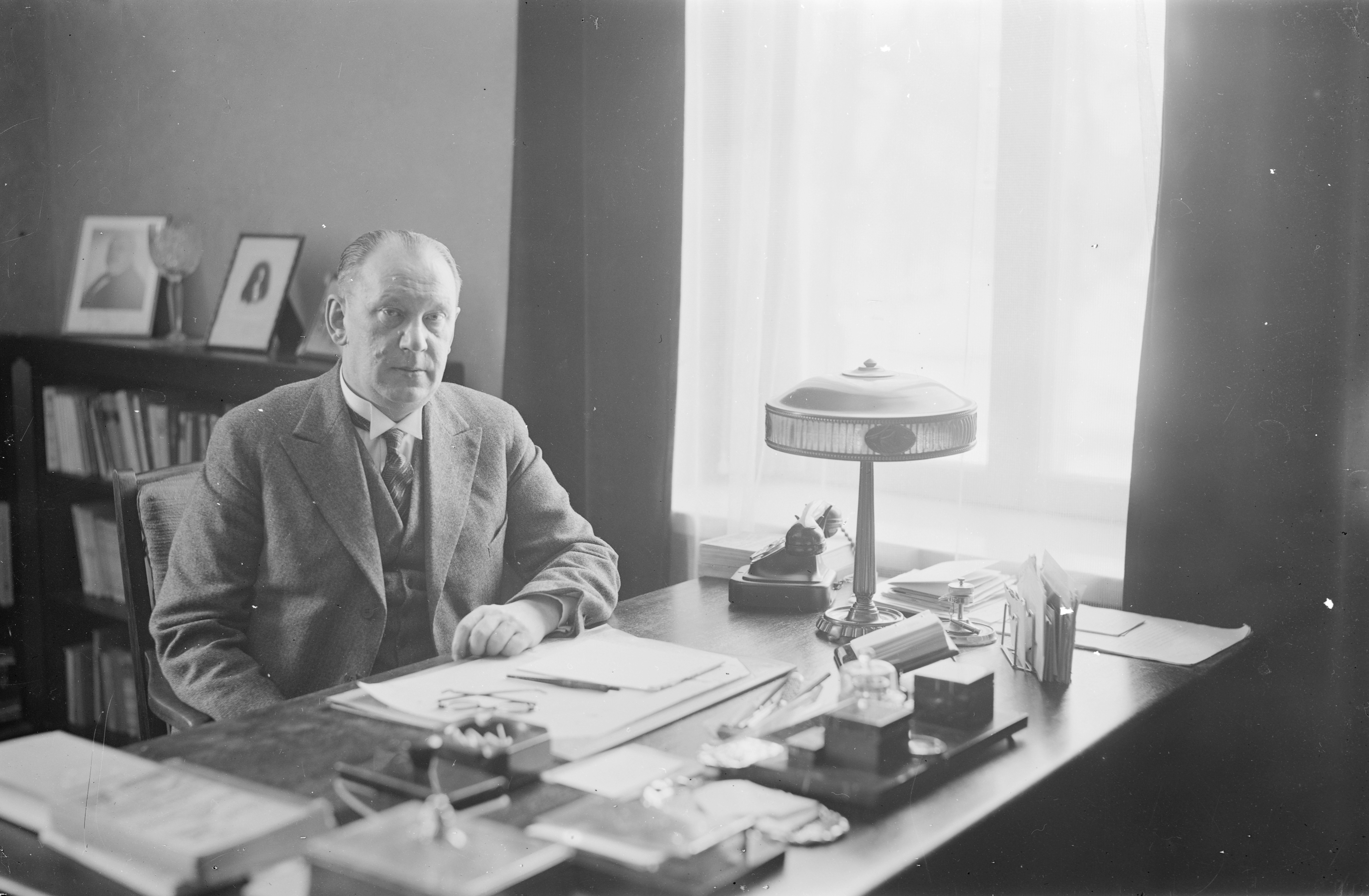 Estonian Ambassador to Finland, Mr. Hans Rebane, at his desk in Helsinki, February 1934